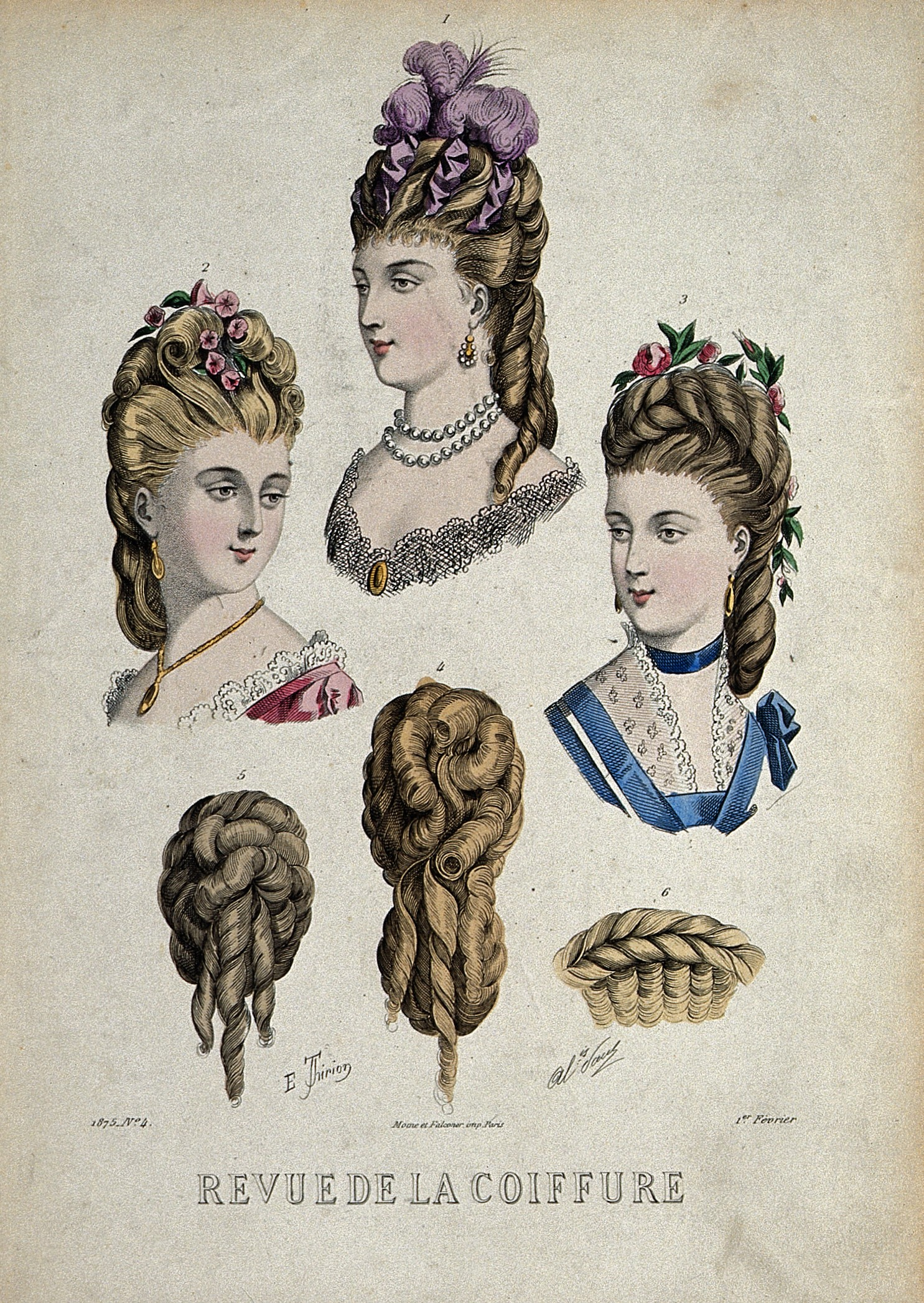 The heads of three women wearing chignons decorated with flowers, ribbons and feathers, attached to their natural hair, above; two chignon pieces and a hair-piece below. Coloured engraving, 1875, after E. Thirion. Iconographic Collections